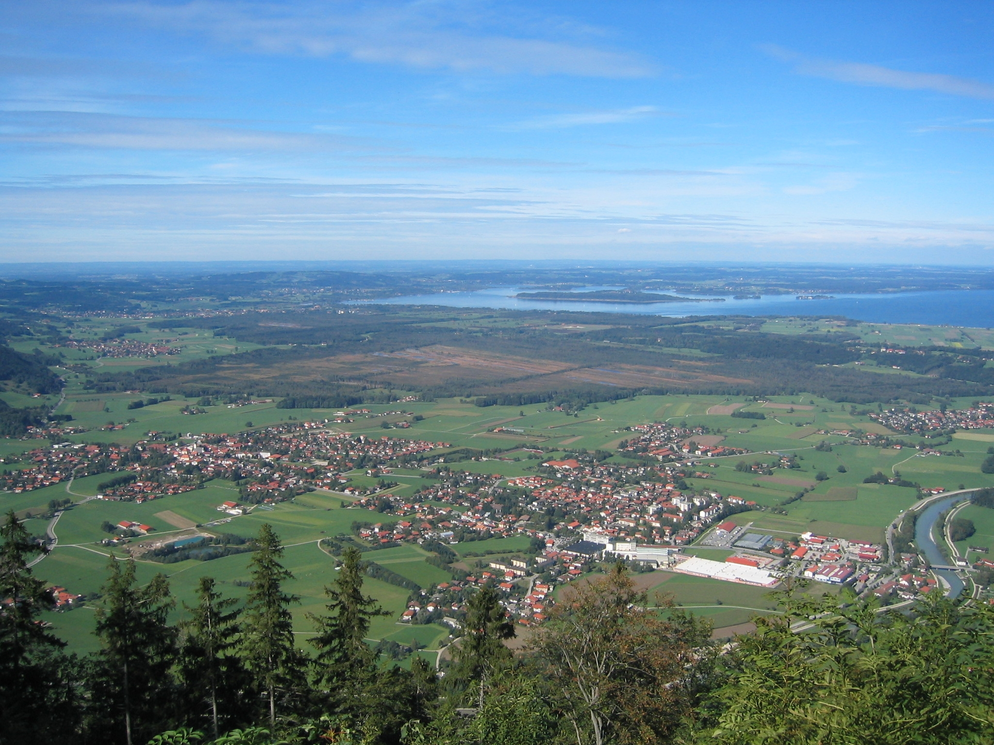 Grassau with Chiemsee